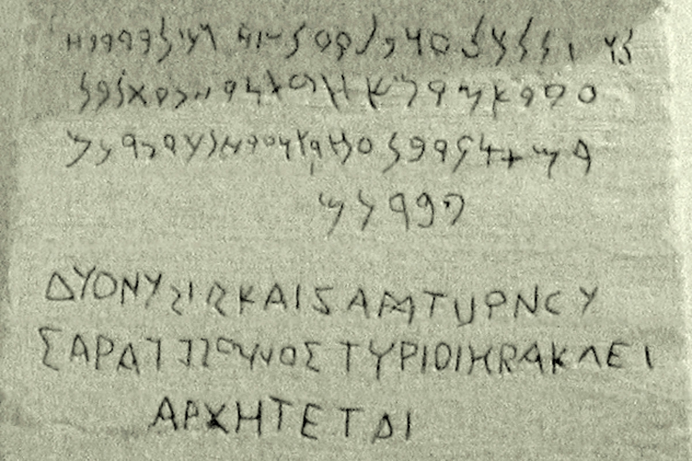 Double inscription in Phoenecian and ancient Greek, found on the pedestal of the cippus found in Malta, which allowed the translation of Phoenecian.